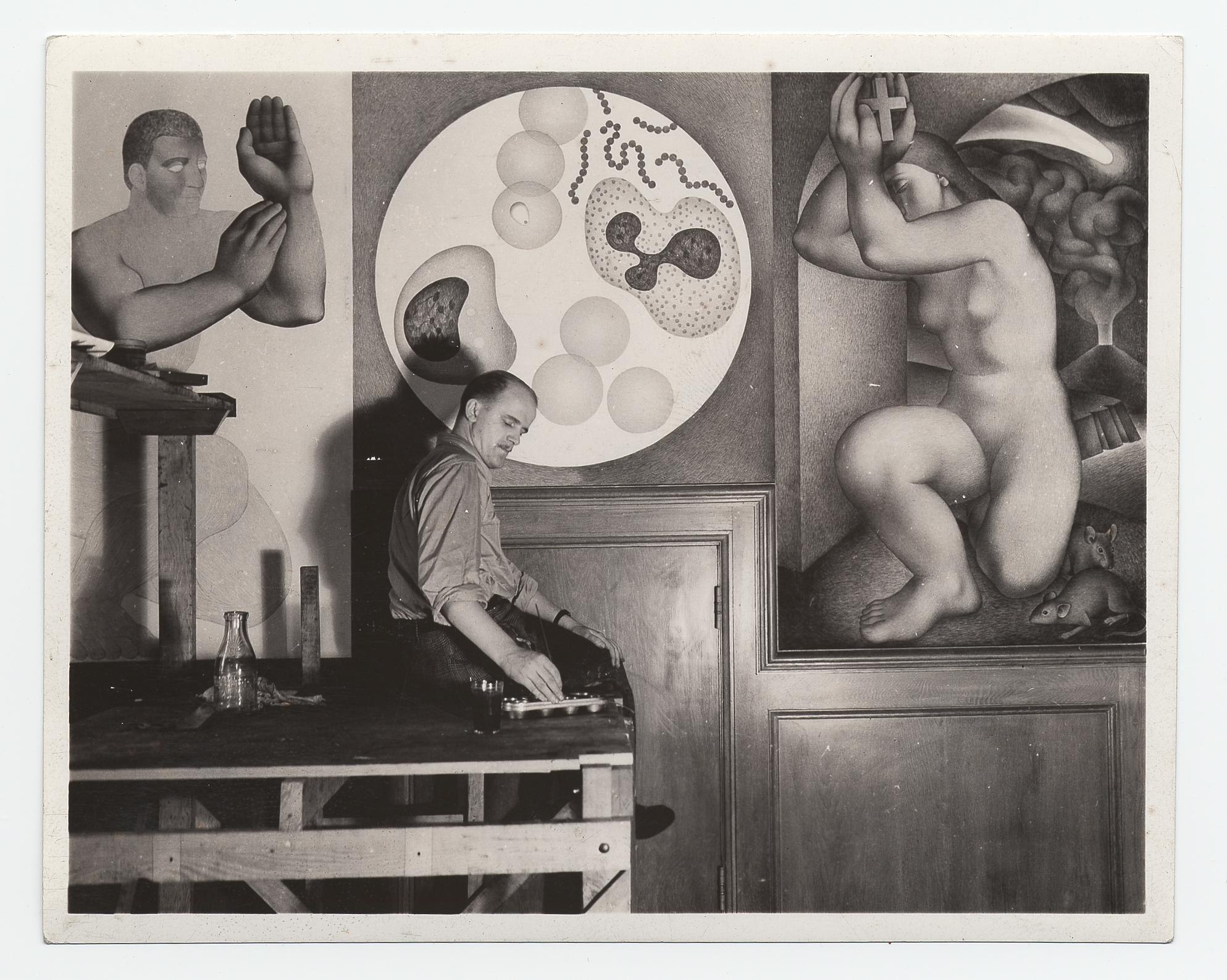 Mose painting mural at Harlem HospitalIdentification on verso (handwritten and stamped): Federal Art Project W.P.A.; Photographic Division; 13 East 37th St.; New York City Location: Murals, Harlem Hospital; Date 10/20/36; Negative No.: 1718-3; Photographer: Herman.